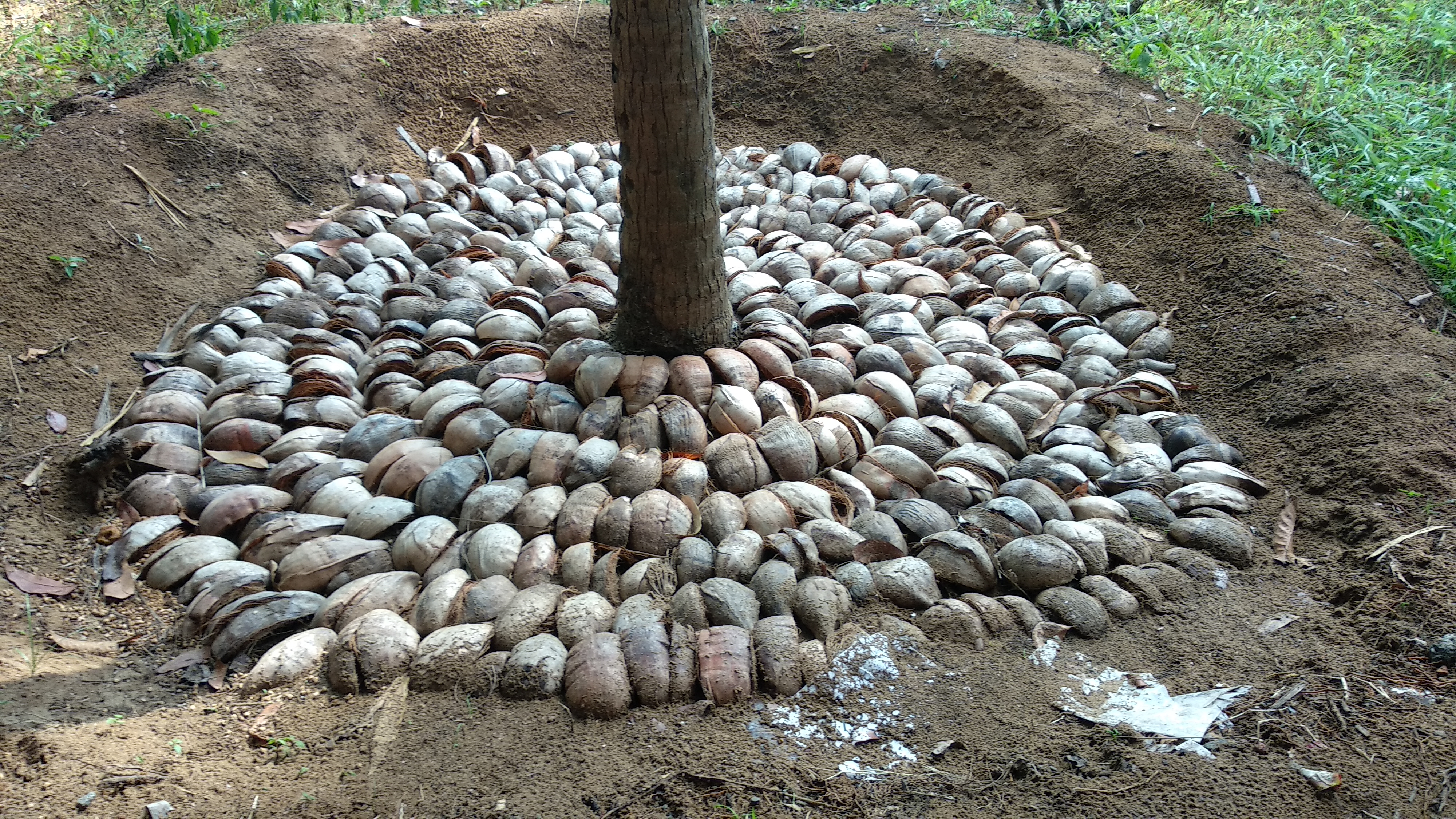 mulching